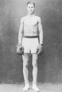 Finnish boxer Göstä Brännäs